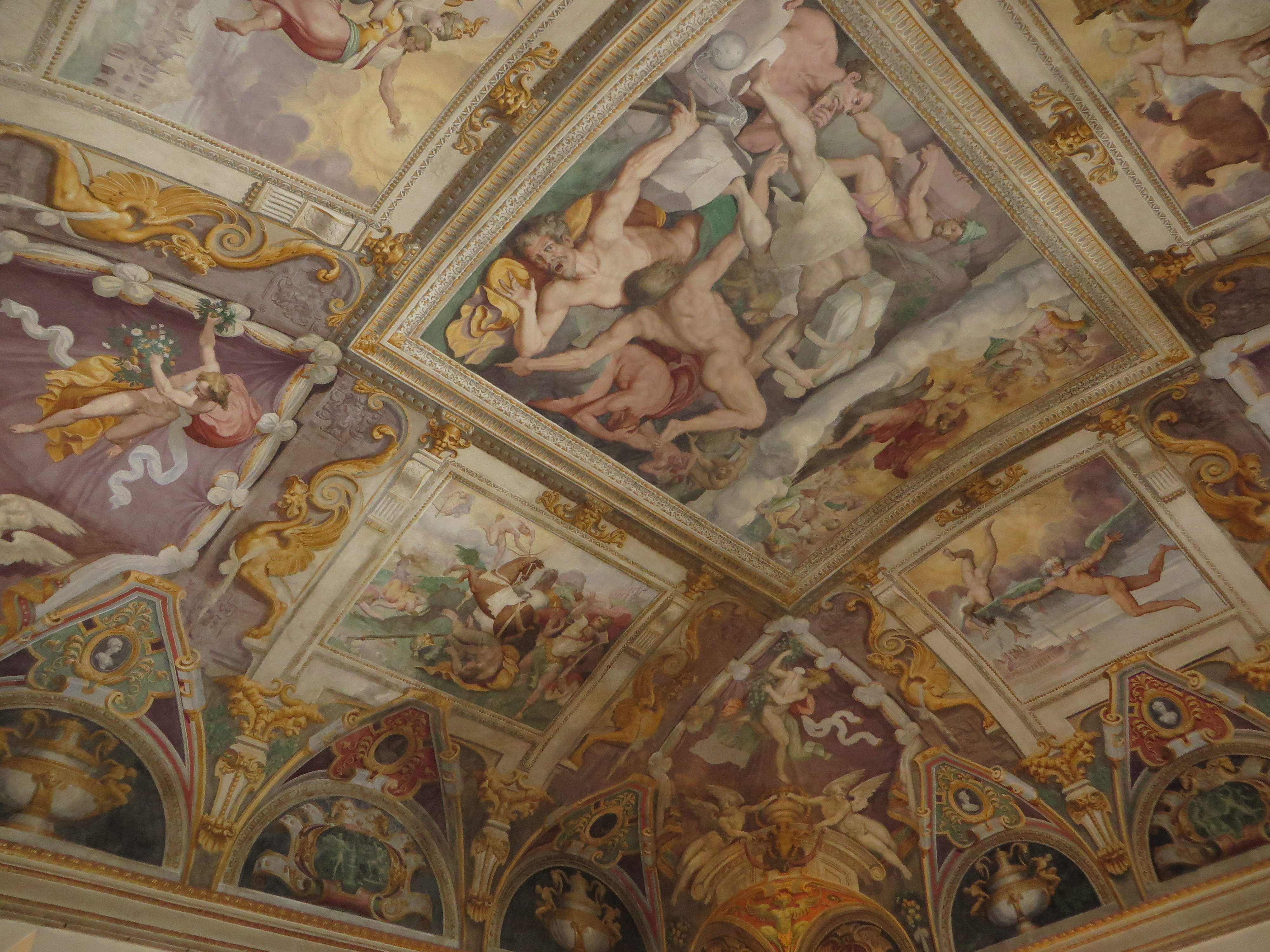 Rossi Castle San Secondo 8